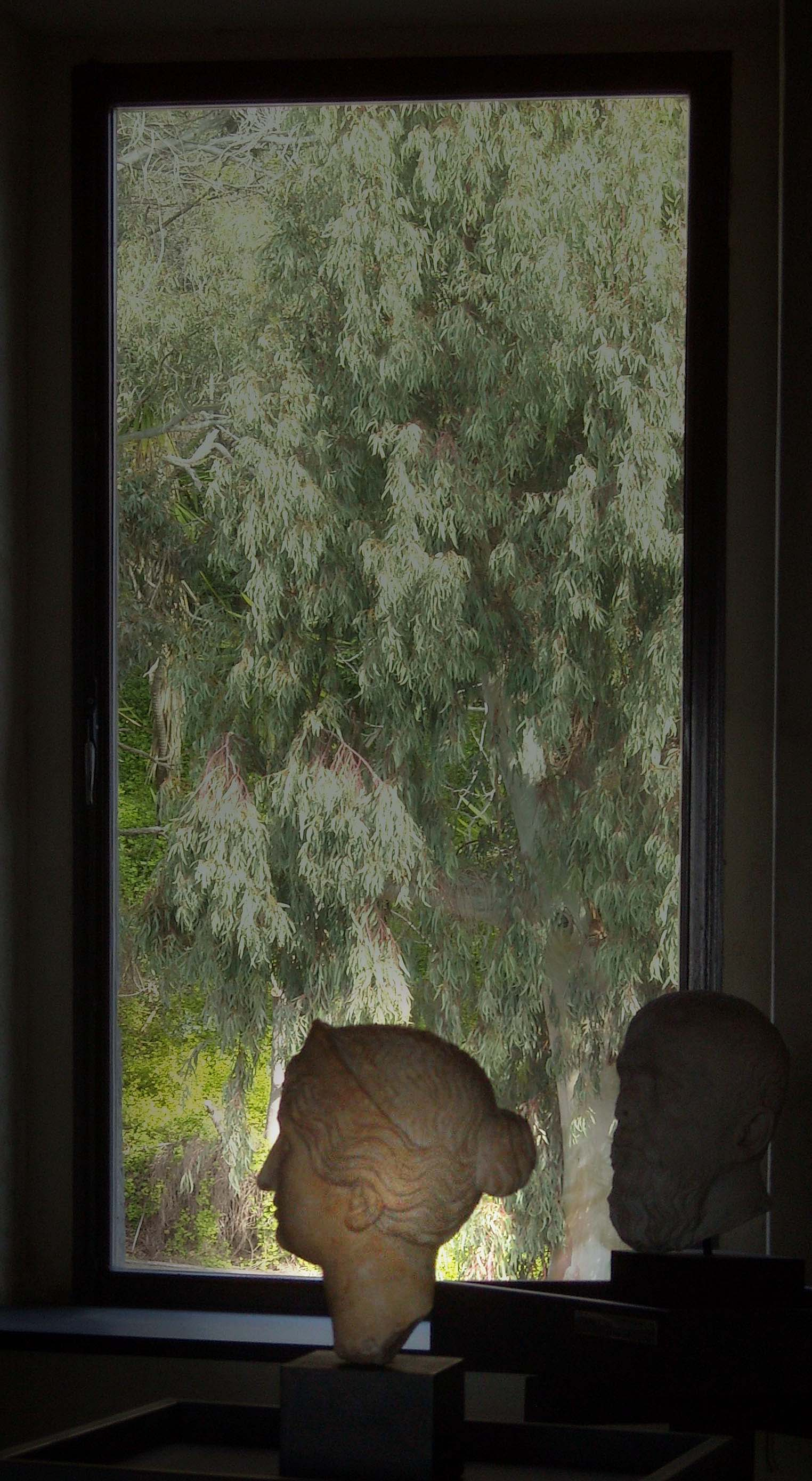 Head of Junon, in white marble, with a diadem lie on her hair, masterpiece inspired from attic models of the fifth century before Christ. Coming from Daziano's collection.